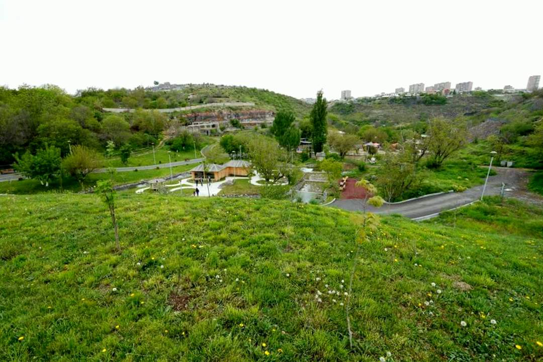 Yereavn Zoo, 1 May 2016